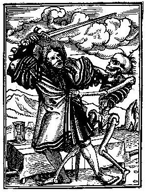 Illustration of the play of the rich man dying.